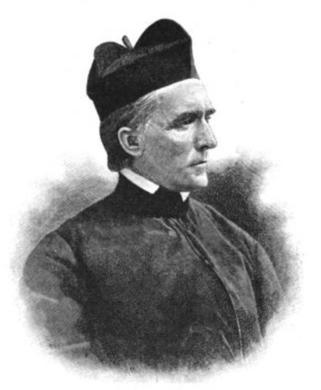 Bernard A. Maguire, president of Georgetown University